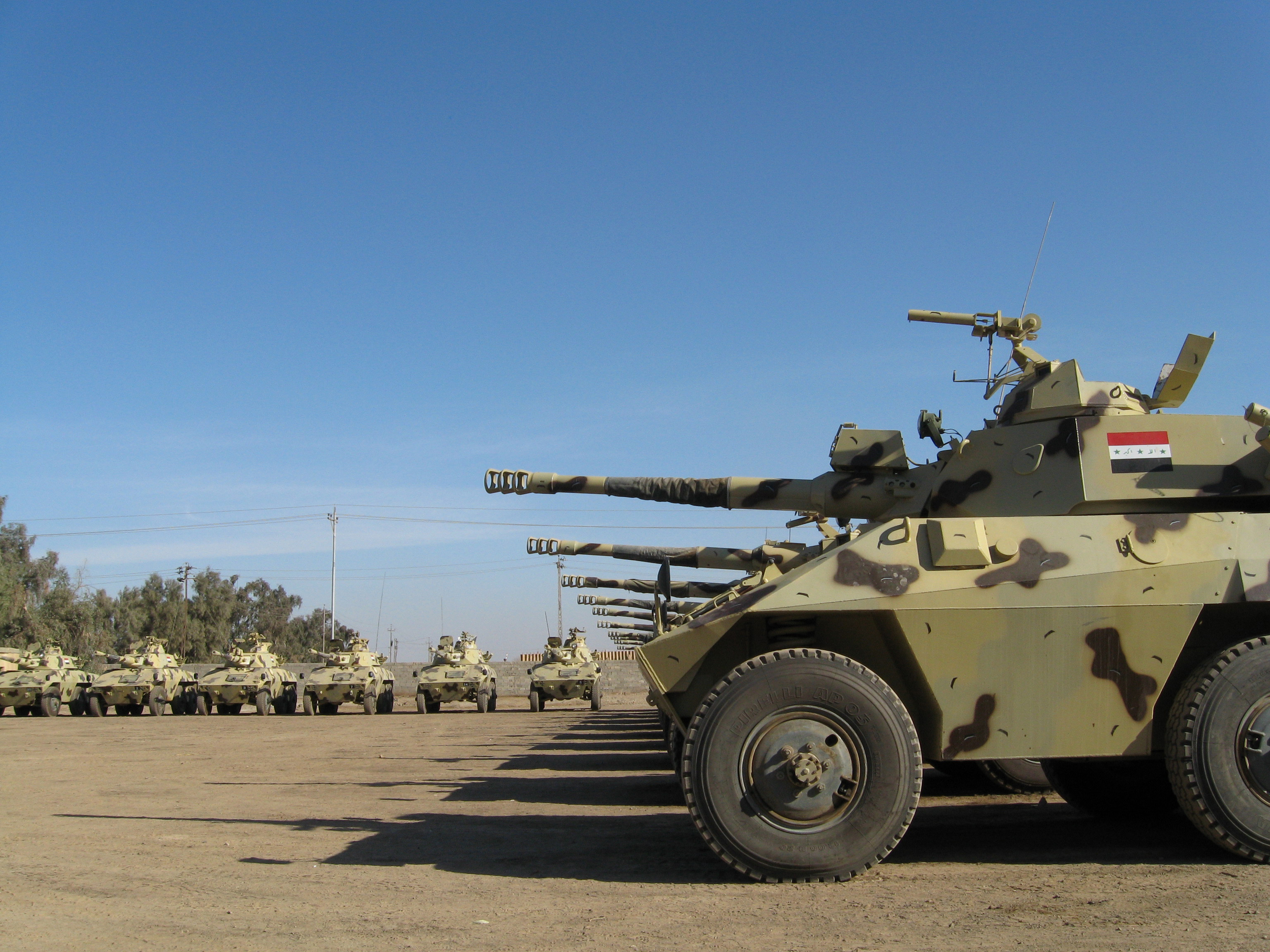 EE-9 Cascavel armored reconnaissance vehicles ready for transfer to the 4th Bde, 9th Div Iraqi Army.